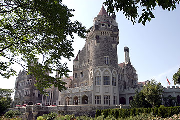 Casa Loma, 1 Austin Terrace, Toronto, Ontario, Canada.